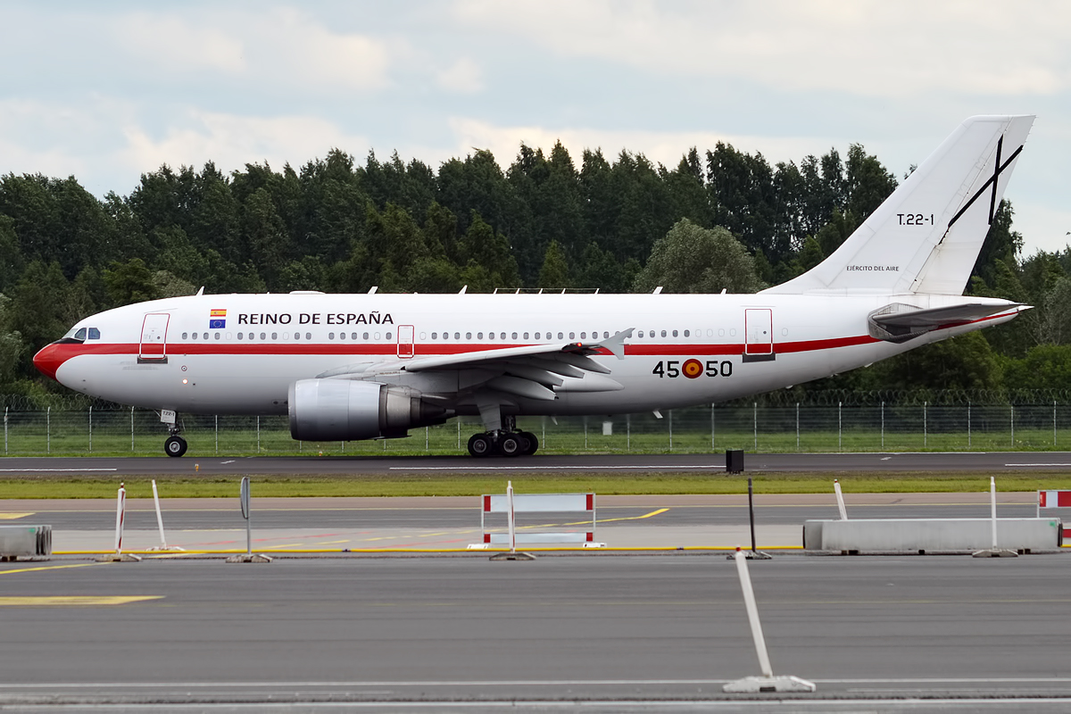 Spanish Air Force, T.22-1, Airbus A310-304